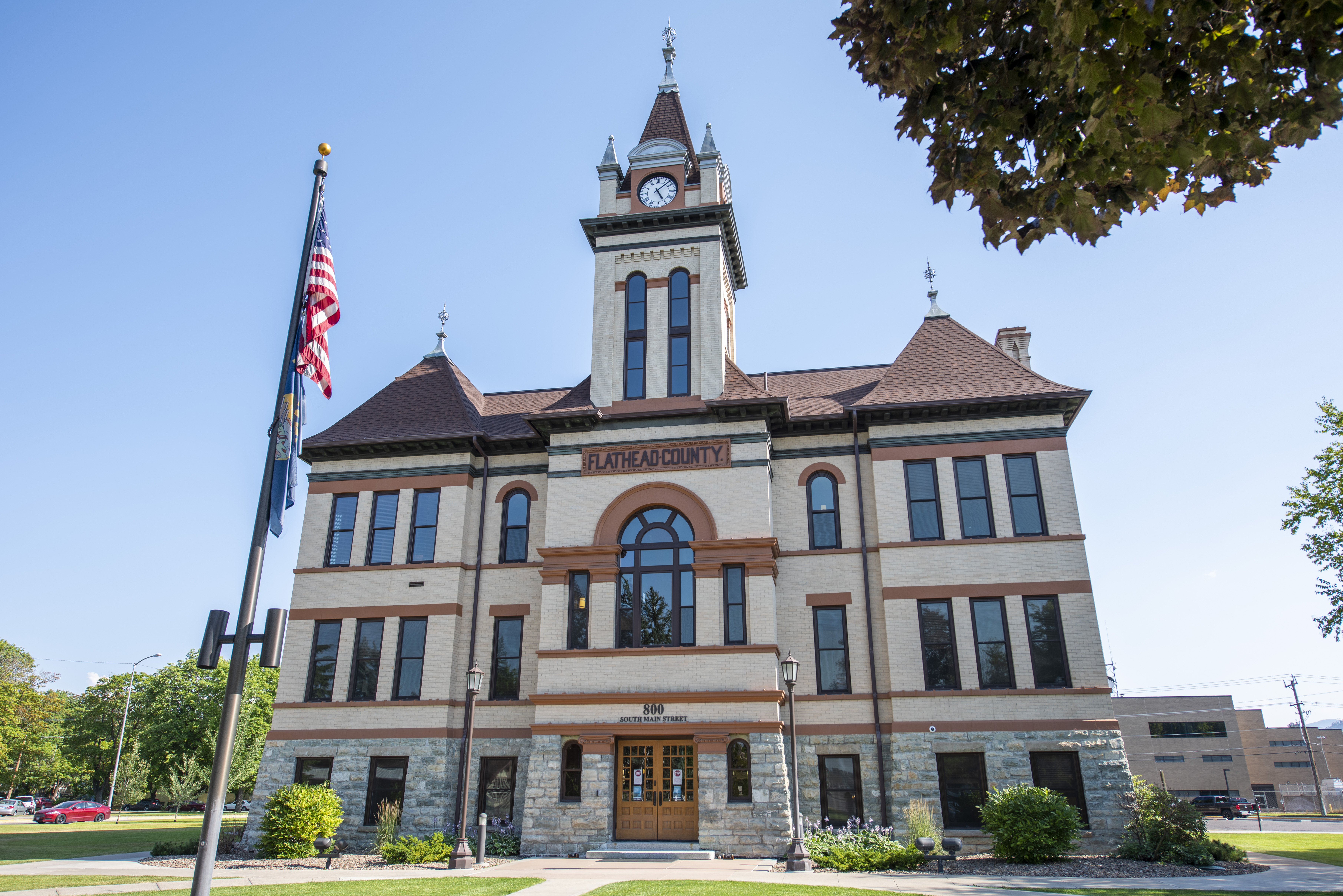 Flathead County Courthouse in Kalispell, Montana. Image taken in July 2020.